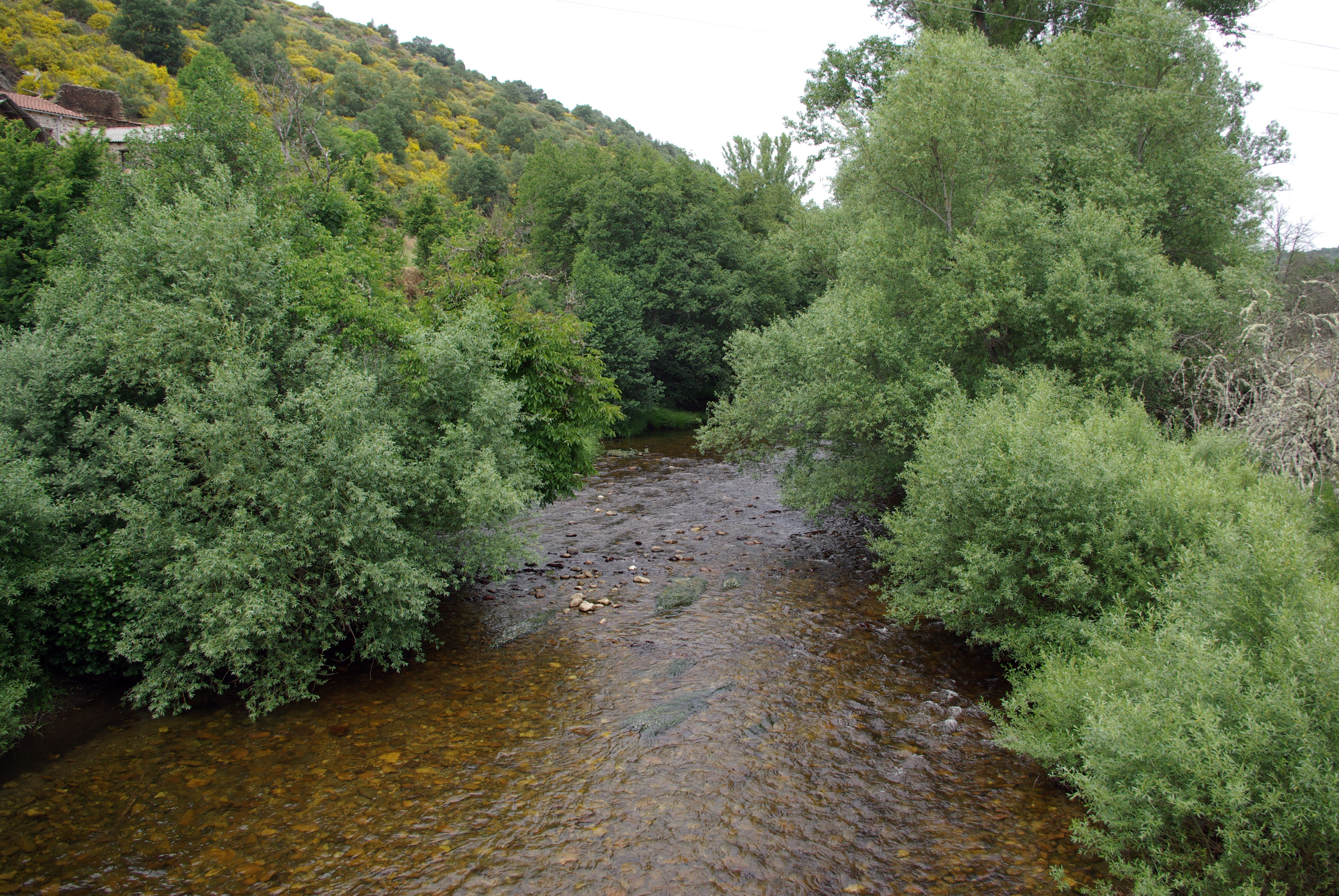 River Omaña in Inicio (Riello, León, Spain).